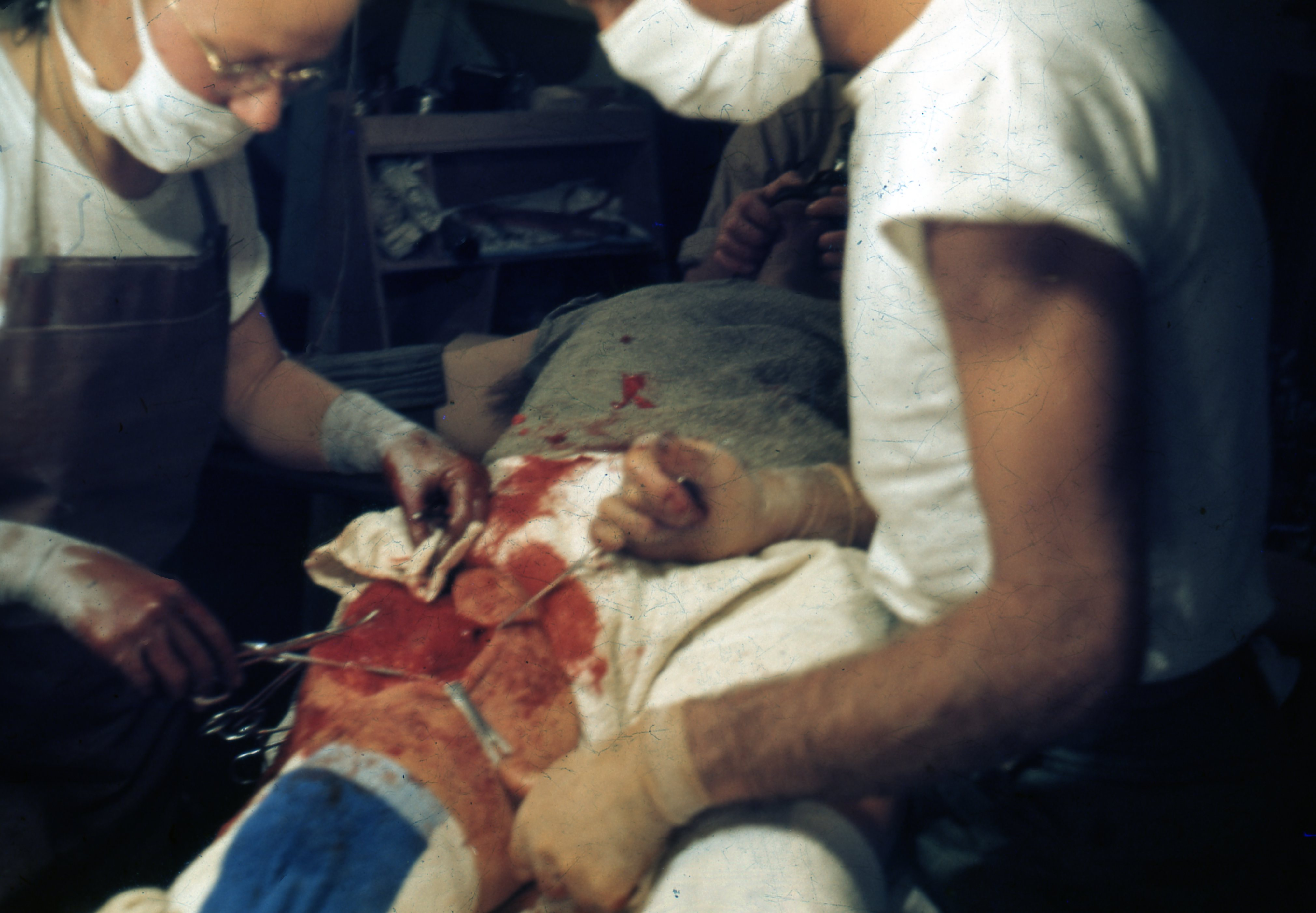 Format: Lysbilde / Dias Dato / Date: 1952 Fotograf / Photographer: Inger Schulstad (1920 - 2010) Sted / Place: Korea Wikipedia: Norwegian Mobile Army Surgical Hospital Wikipedia: Koreakrigen (1950 - 1953) Eier / Owner Institution: Trondheim byarkiv, The Municipal Archives of Trondheim Arkivreferanse / Archive reference: Tor.H49.B01.B1051